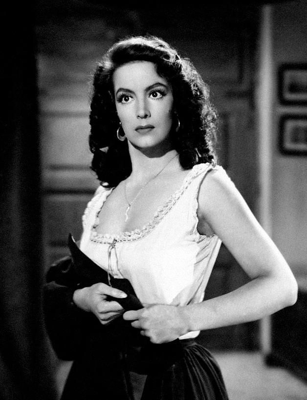 Mexican actress Maria Félix acting in the film Black Crown. 1951.